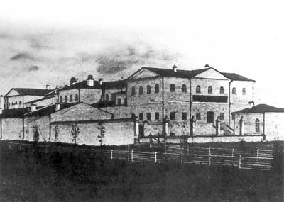 Prison of Nizhnyaya Tura